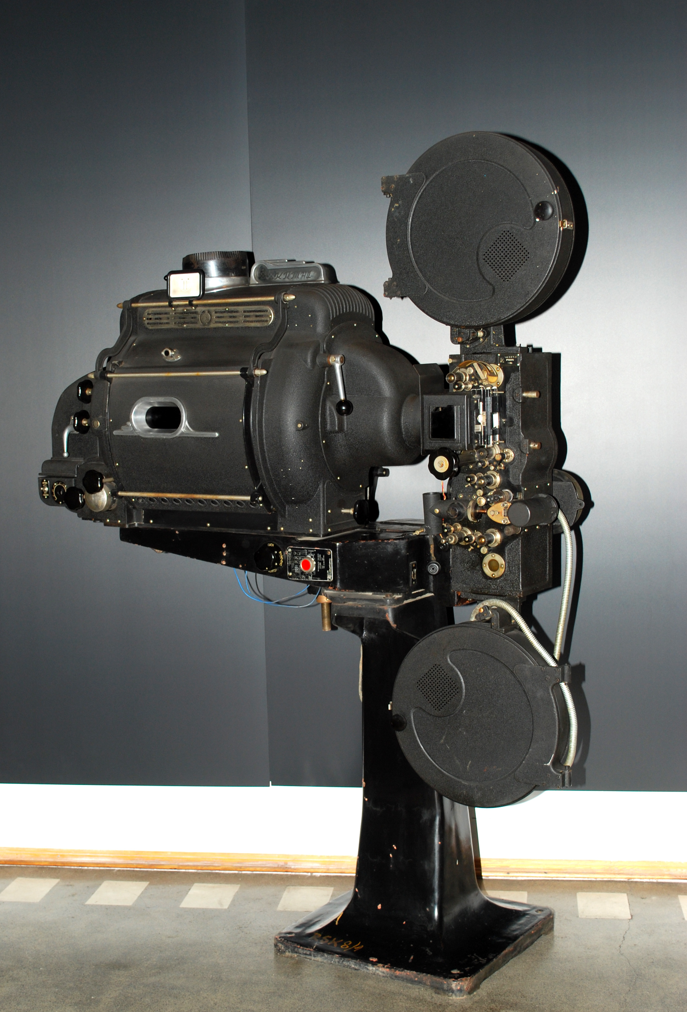 This picture was taken during the photographic wikiworkshop organized by the Association of Wikimedia Poland. All pictures of the workshop you can see in the category wikiwarsztaty 2010. Projektor filmowy KPTD prod. rosyjskiej.